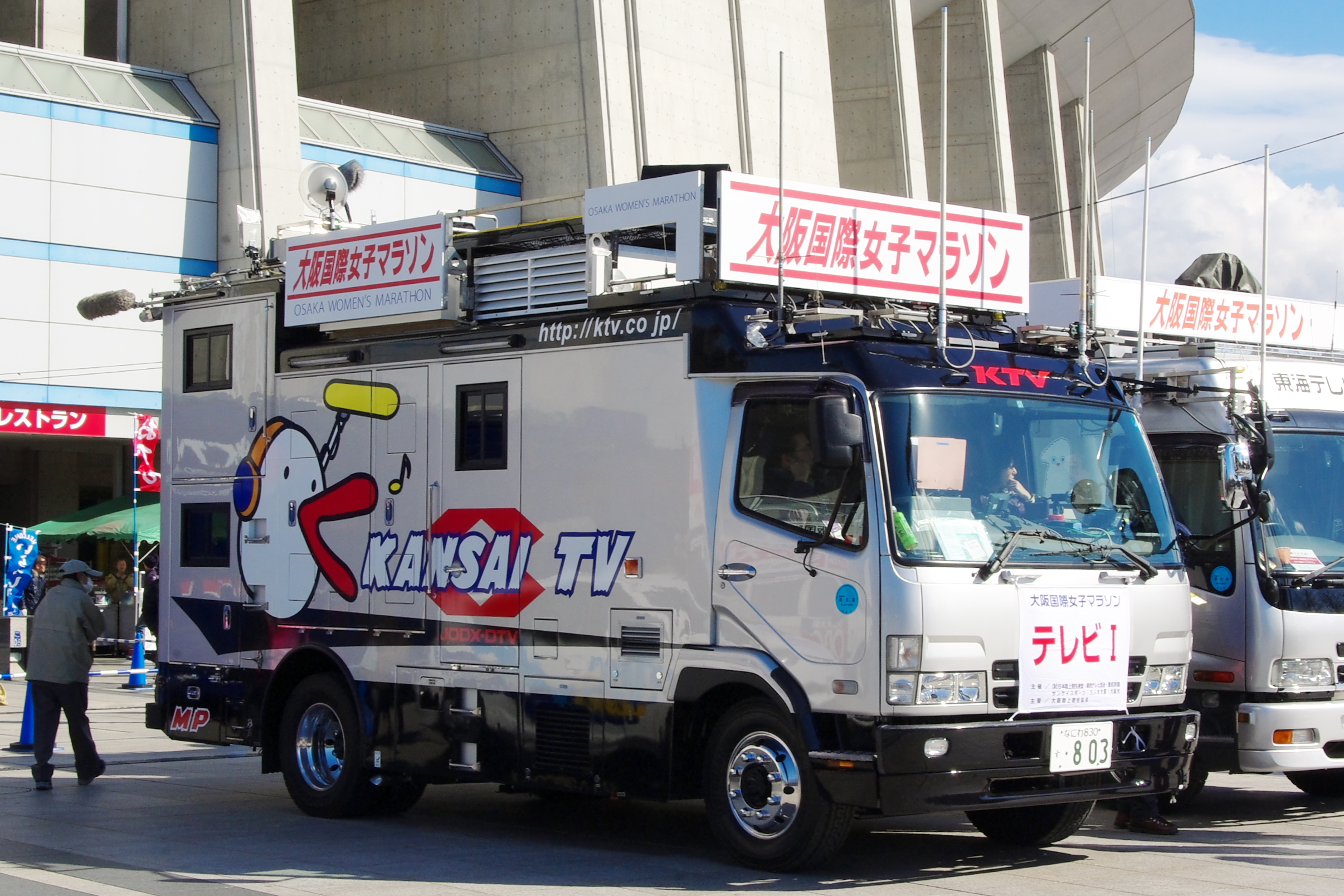 Photograph of multi-purpose outside broadcasting van of Kansai Telecasting Corporation (Fuso Canter), taken between the marathon gate and first gate of Nagai Stadium, Higashisumiyoshi-ku, Osaka, Osaka Prefecture, Japan.